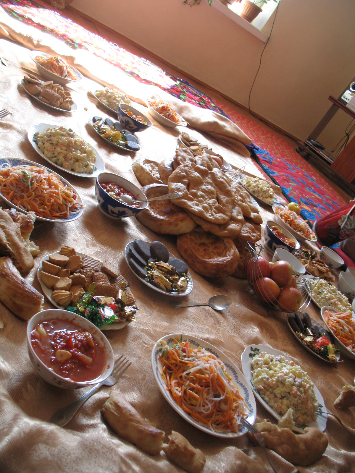 A dastorqon while being set up for Nooruz Кыргызча: Нооруз үчүн даярдалып жаткан дасторкон